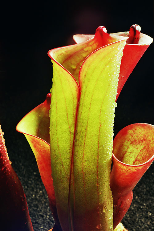 Heliamphora folliculata